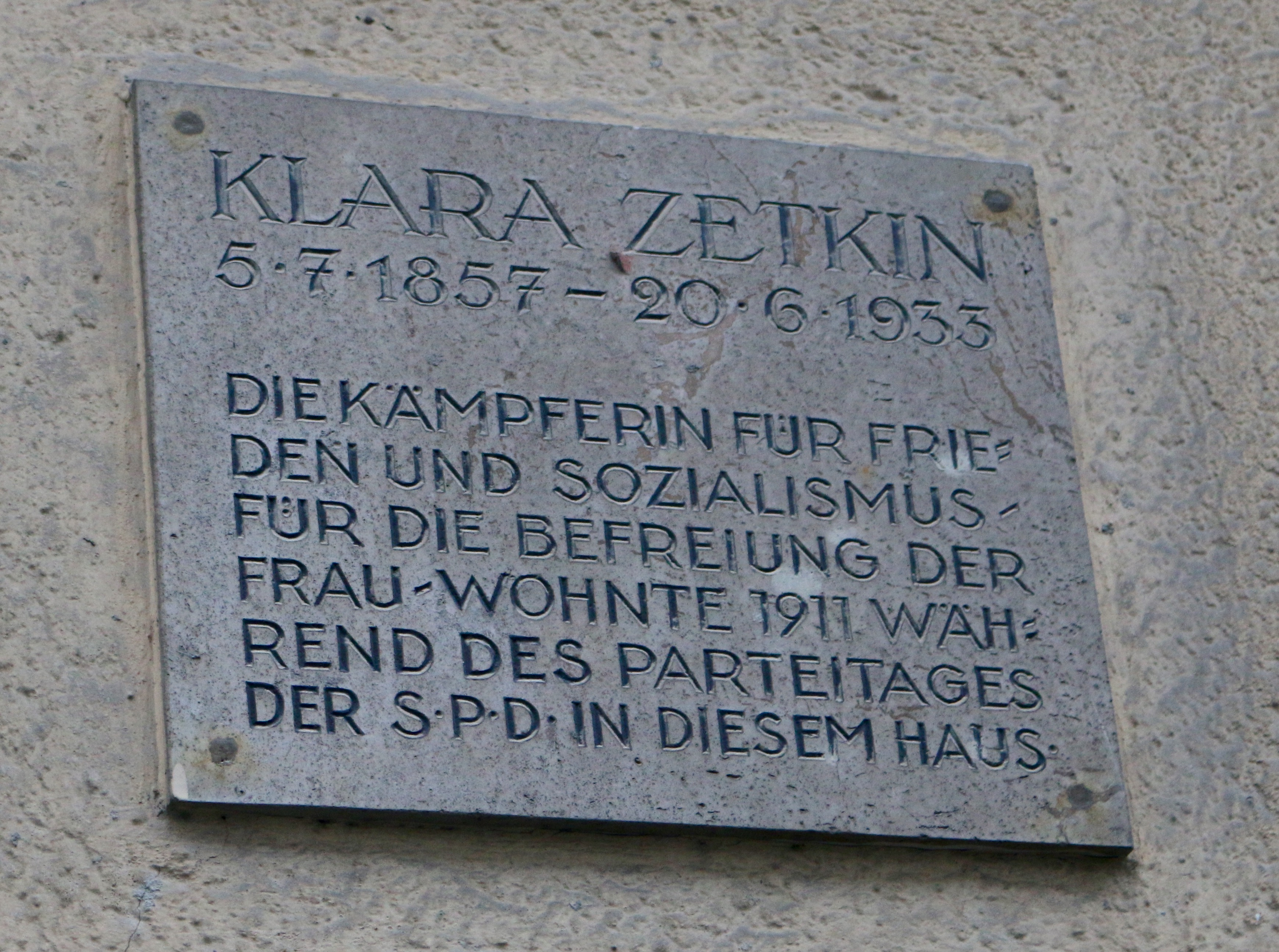 A plaque comemmorating where Klara Zetkin once lived in Jena, Germany